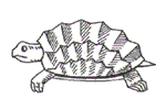 Emblem of 3rd U-boat flotillia of Kriegsmarine